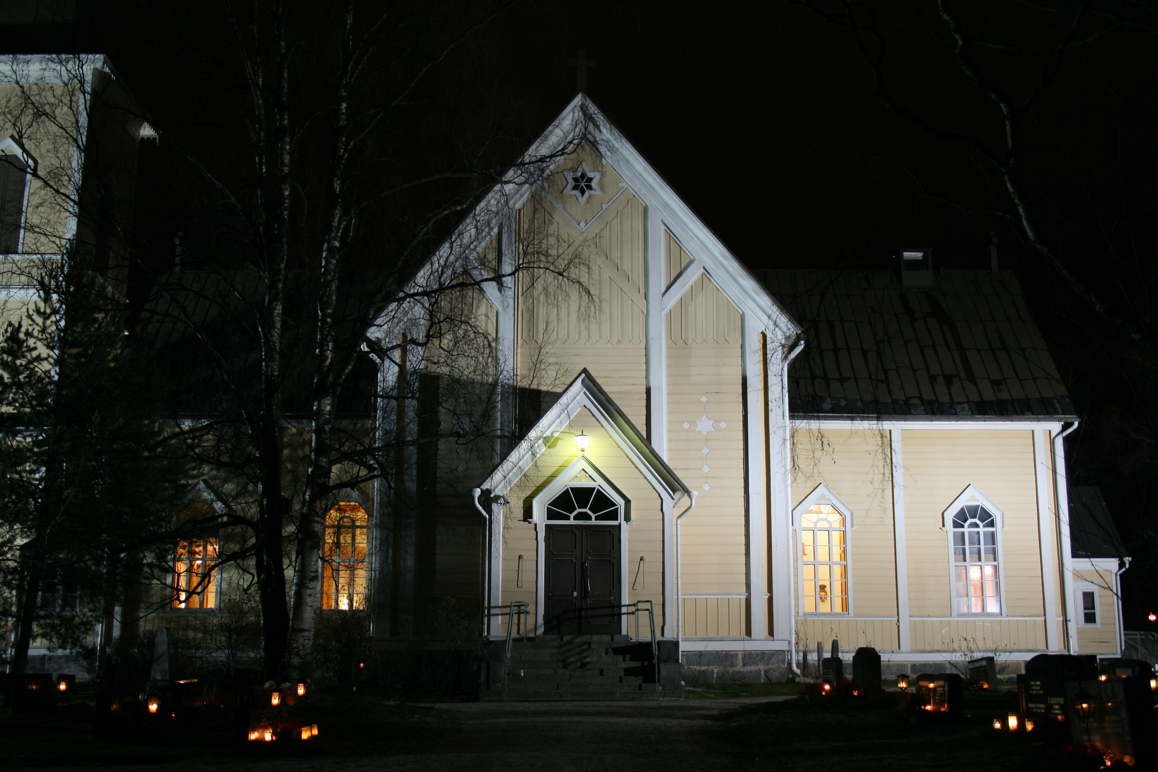 Nivala Church in Nivala, Finland